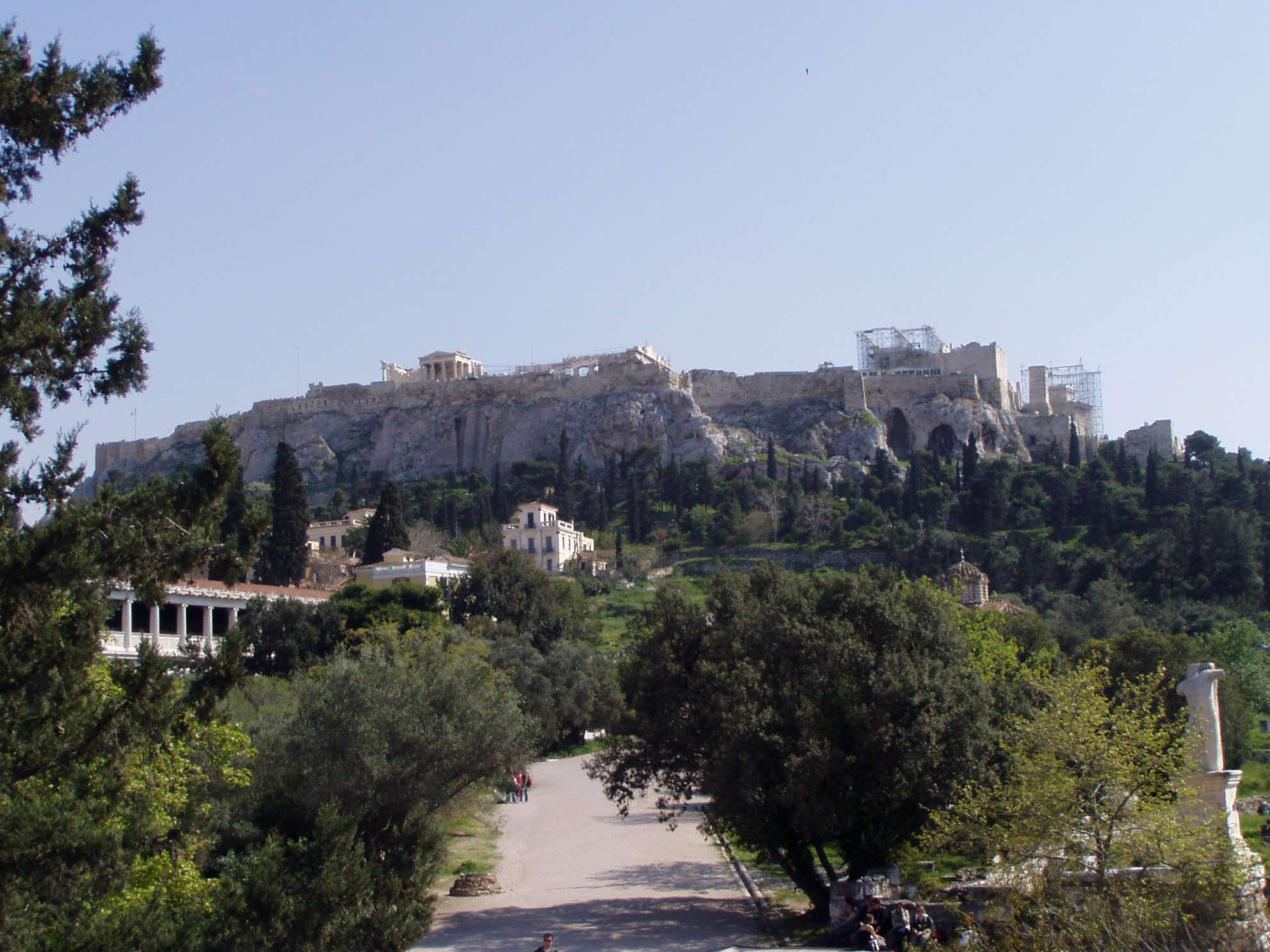 This is the Ancient Agora of Athens.